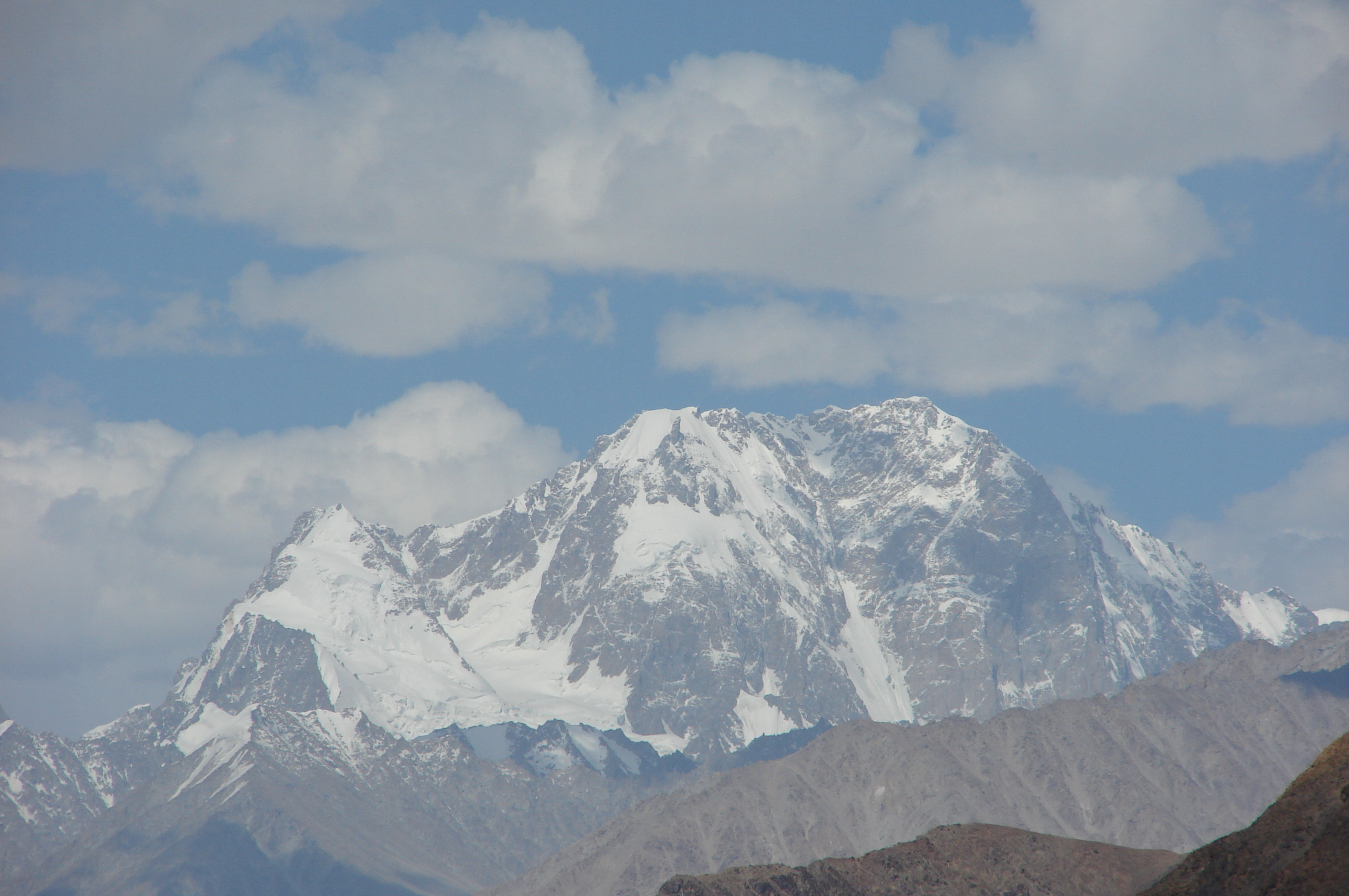 Saser Kangri II, seen from above Wachan (S of Hunder), from about 50 km distance